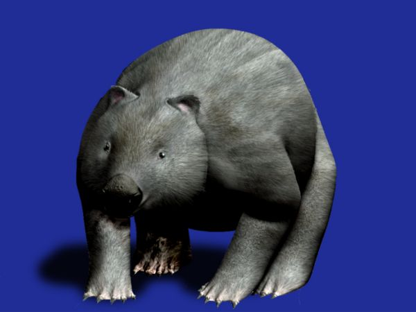 Phascolonus gigas, Pleistocene of Australia. Digital.